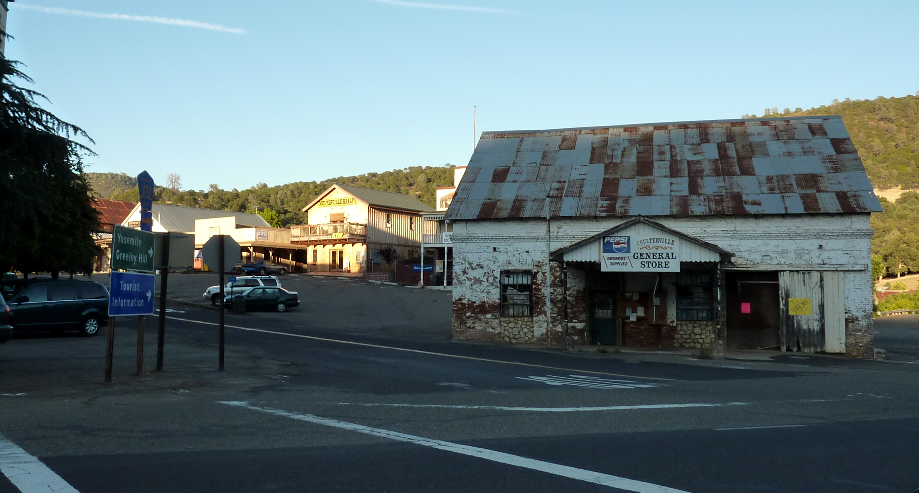 A section of the Coulterville Main Street Historic District, Coulterville, California, USA.